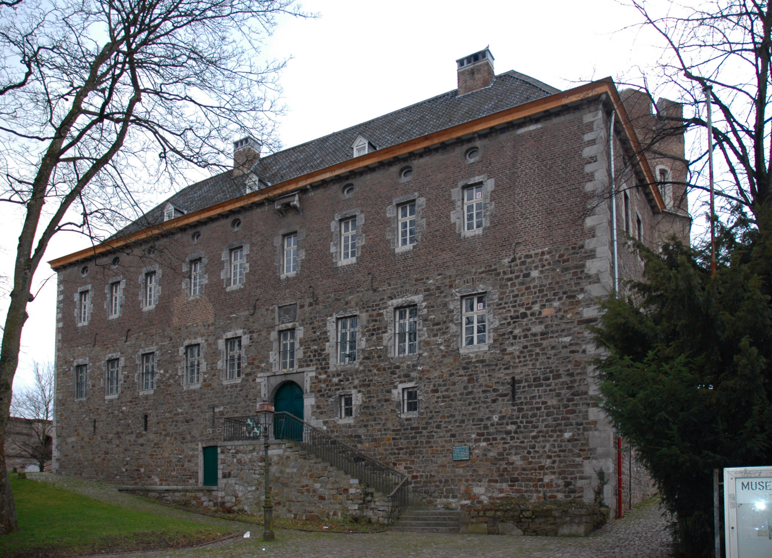 Mansion of Frankenberg Castle in Aachen, north-eastern aspect